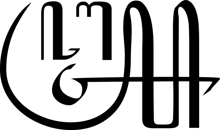 The 'pada madya' symbol